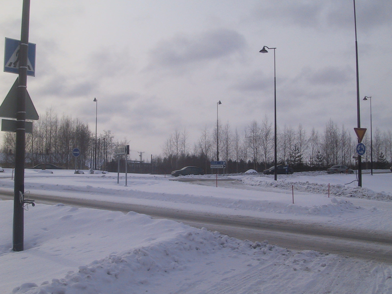 Ristisuo roundabout in Kempele, Finland